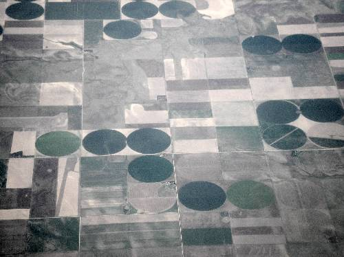 Farmland seen from an airliner. The circles you can see are irrigated crops being grown, they are called pivots. Center-pivot irrigation (sometimes called central pivot irrigation), also called circle irrigation, is a method of crop irrigation in which equipment rotates around a pivot. A circular area centered on the pivot is irrigated, often creating a circular pattern in crops when viewed from above.